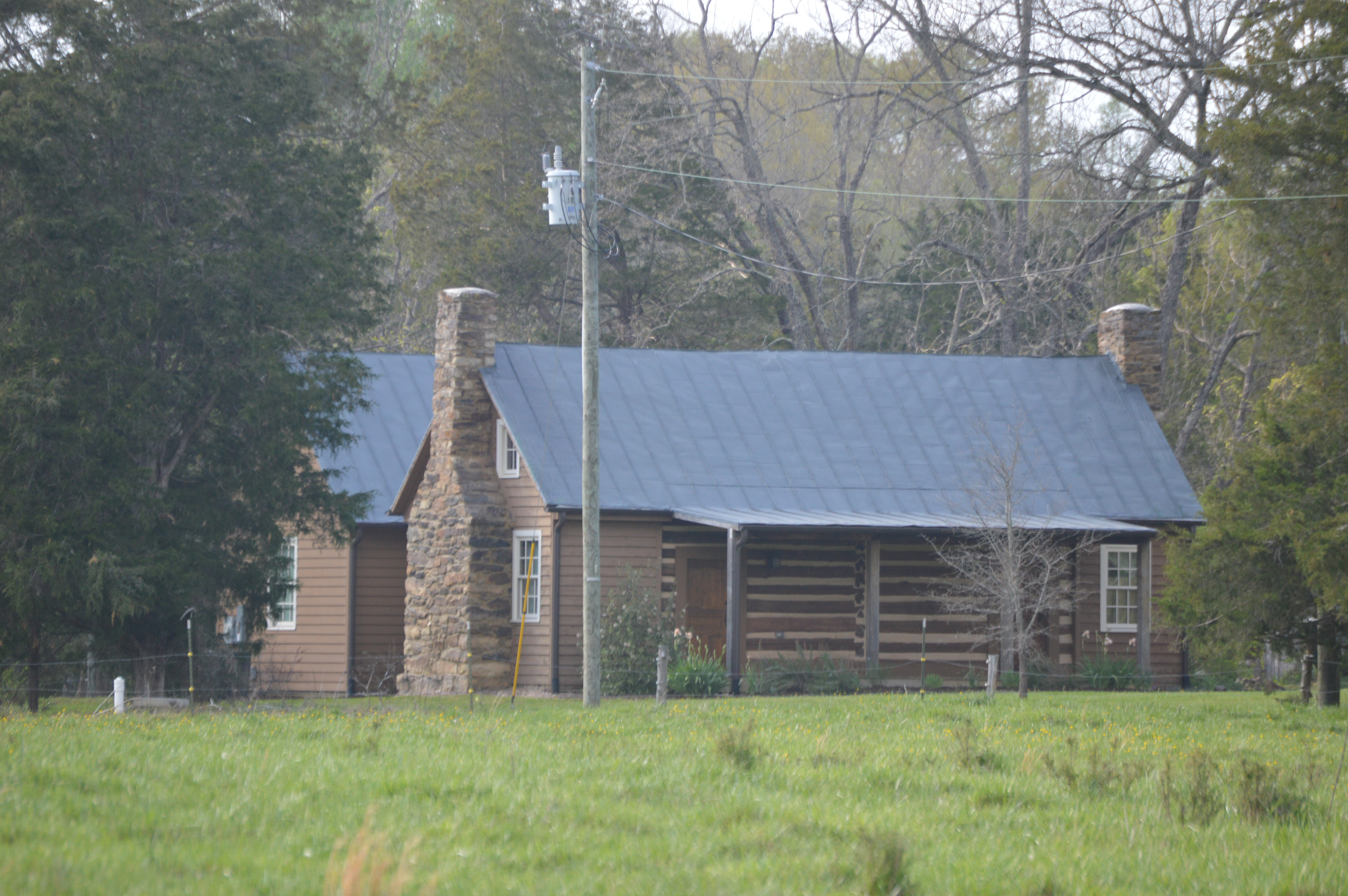 Front of the John and Nancy Yeatts House, located on Emery Road southwest of Gretna in Pittsylvania County, Virginia, United States. Built in 1808, it is listed on the National Register of Historic Places.